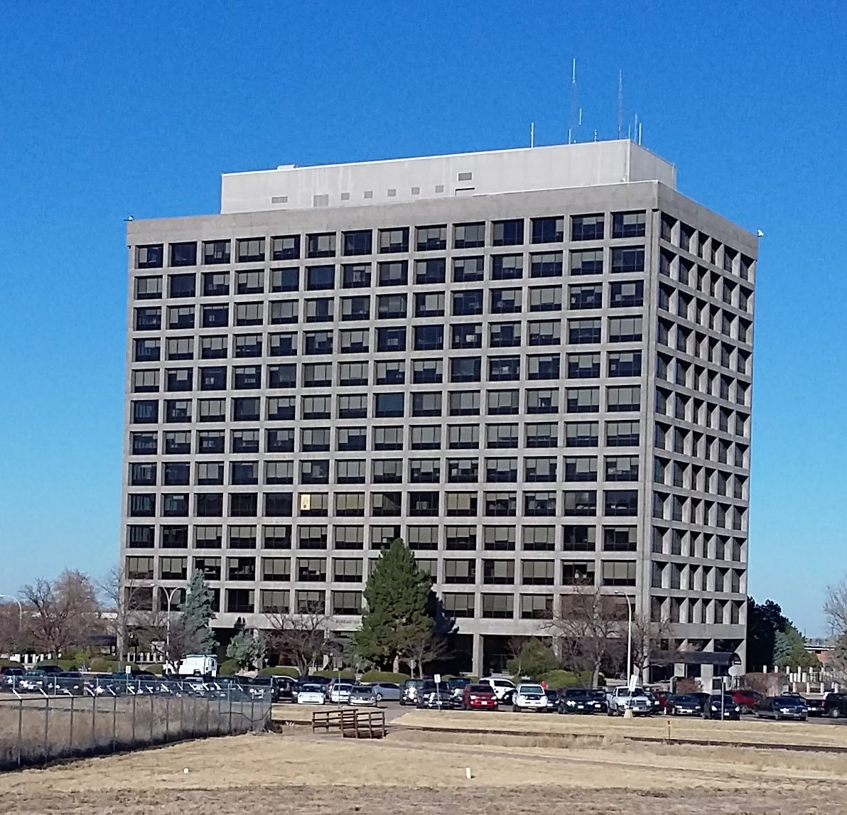 Bureau of Reclamation Engineering & Research Building, Building 67, Denver Federal Center